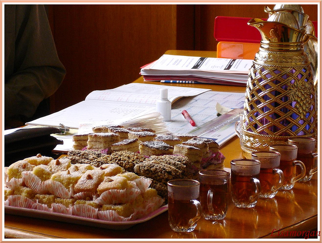 Some fortification for your busy day.